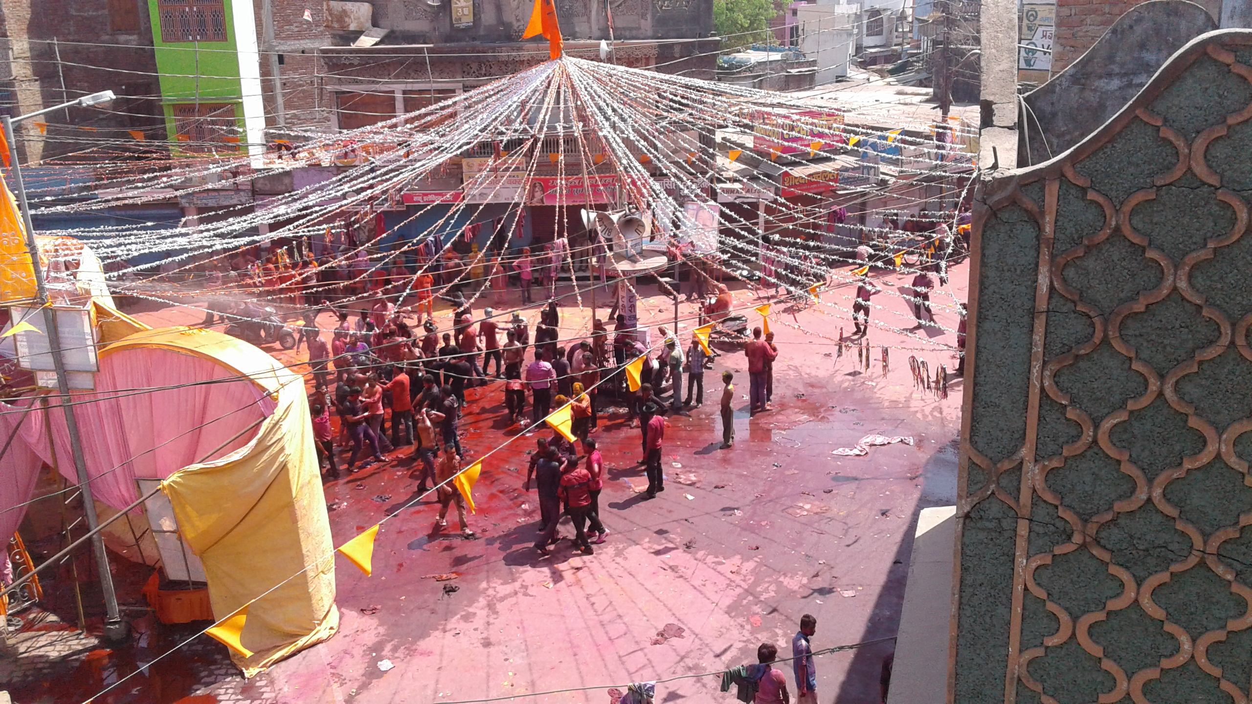 Holi Celebration In Bahraich, March 23, 2016.